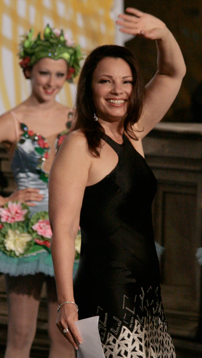 Fran Drescher at the Life Ball 2009, Rathaus, Vienna.